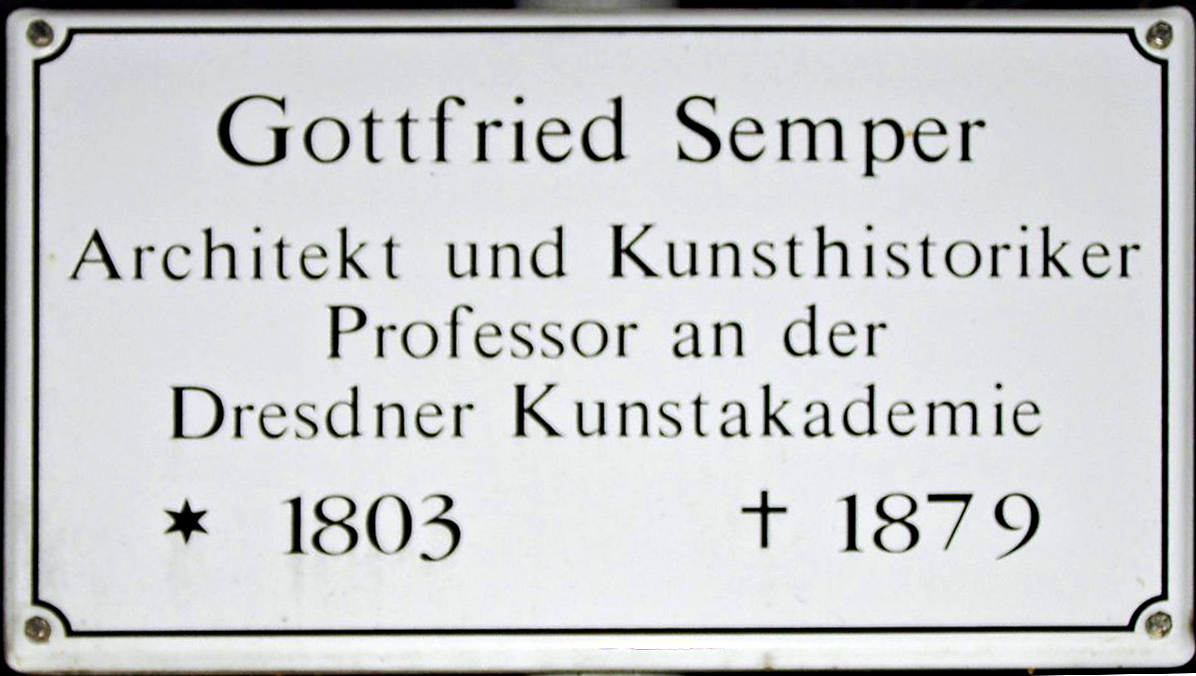 Shows a road sign, which explain were streets name is derived from. The picture has been taken in Dresden.